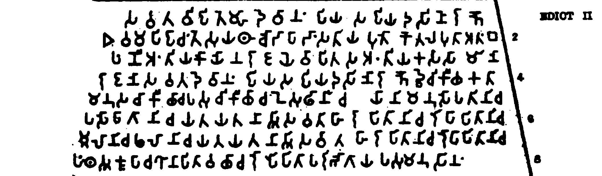 Girnar Major Rock Edict No2